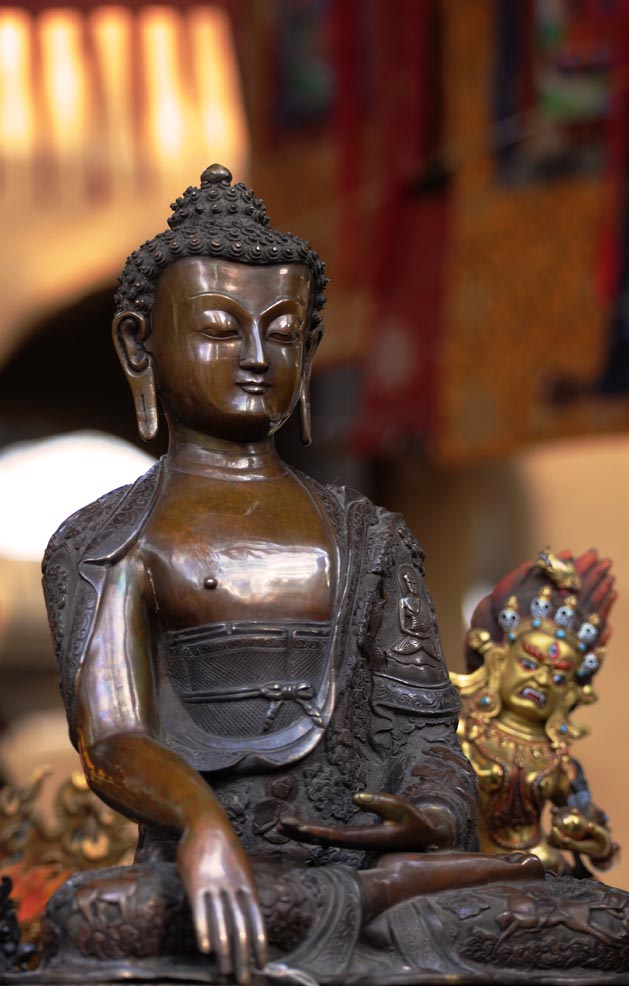 A bronze statue of Buddha at the Sikkim Pavilion at Surajkund Crafts Fair